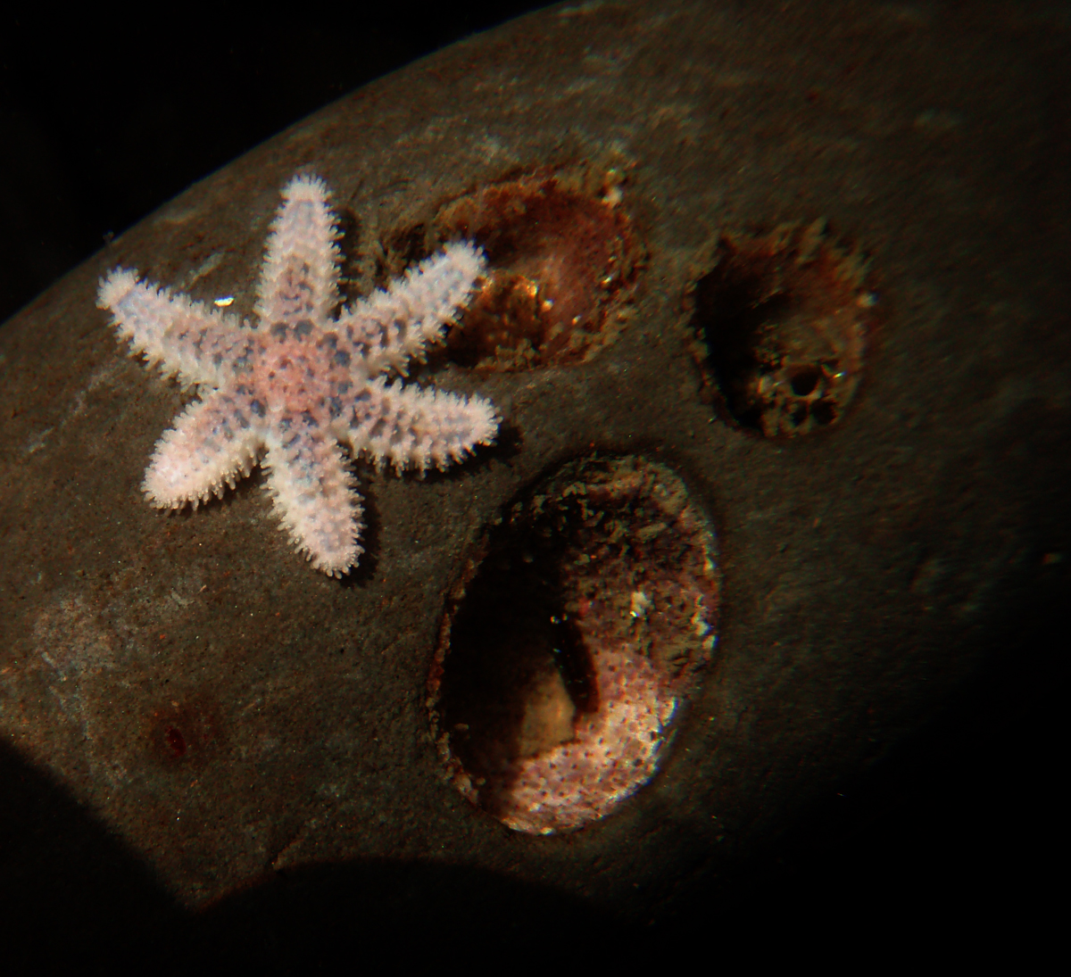 Leptasterias aequalis Syn. Leptasterias hexactis - Six-armed Sea Star in tide pools in California